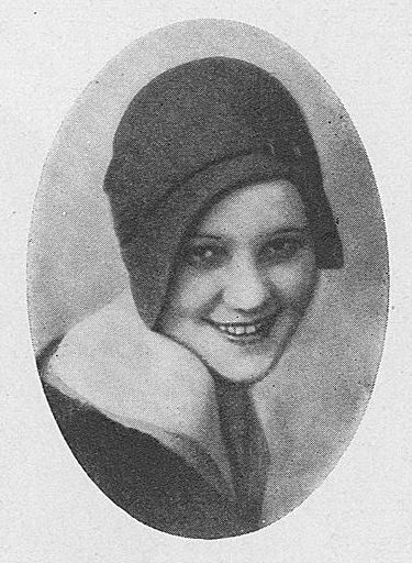 Finnish theatre personality, early 1930s.